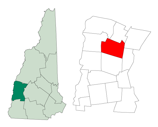 Map of a municipality in Sullivan County, New Hampshire